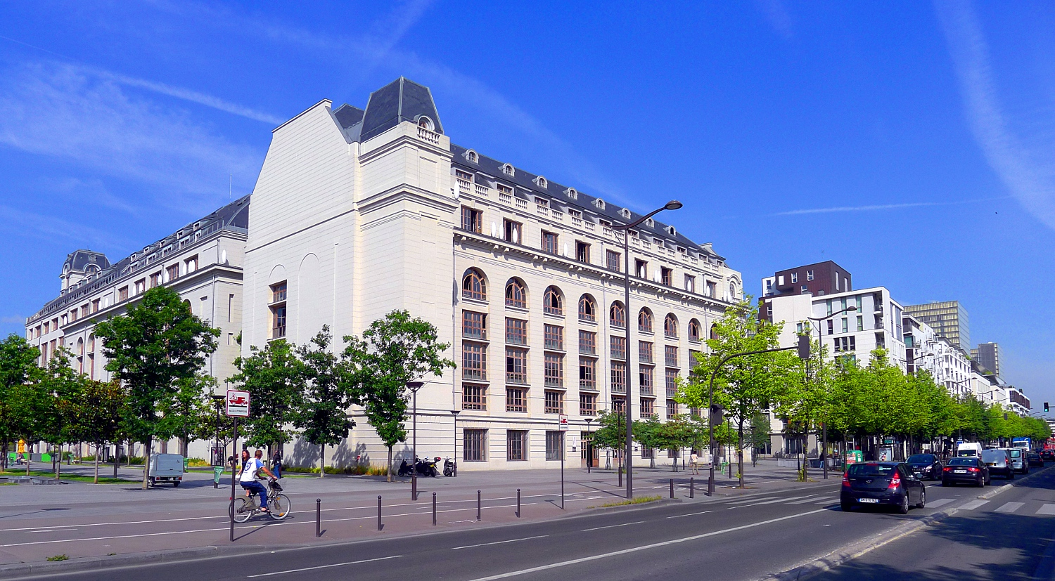 Quai Panhard-et-Levassor - Paris